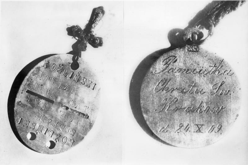 Christian medallion recovered from the mass graves of the Katyn Massacre. The inscription reads: "Koźliński Stefan" (left) "In memory of Holy Baptism, Kraków, 24 October 1909". (right)